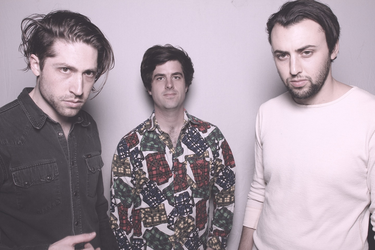 Mini Mansions, pictured in 2013.